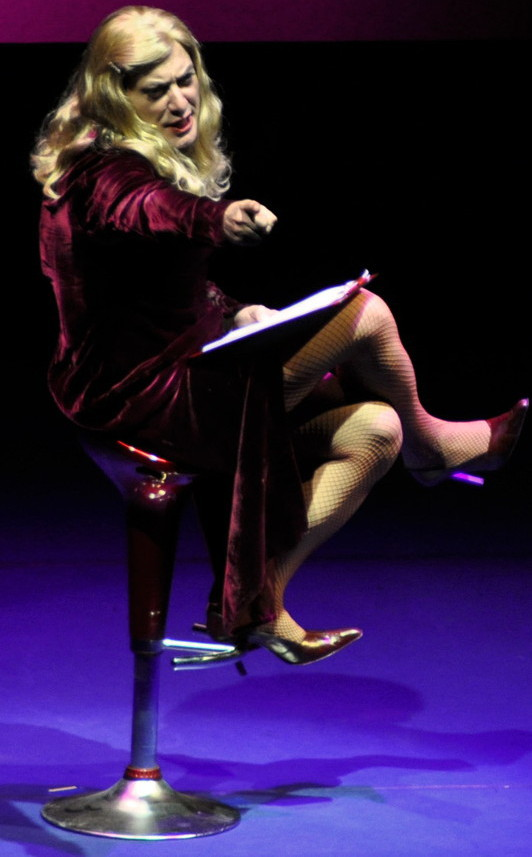 Photo of Corrado Guzzanti's character Vulvia.